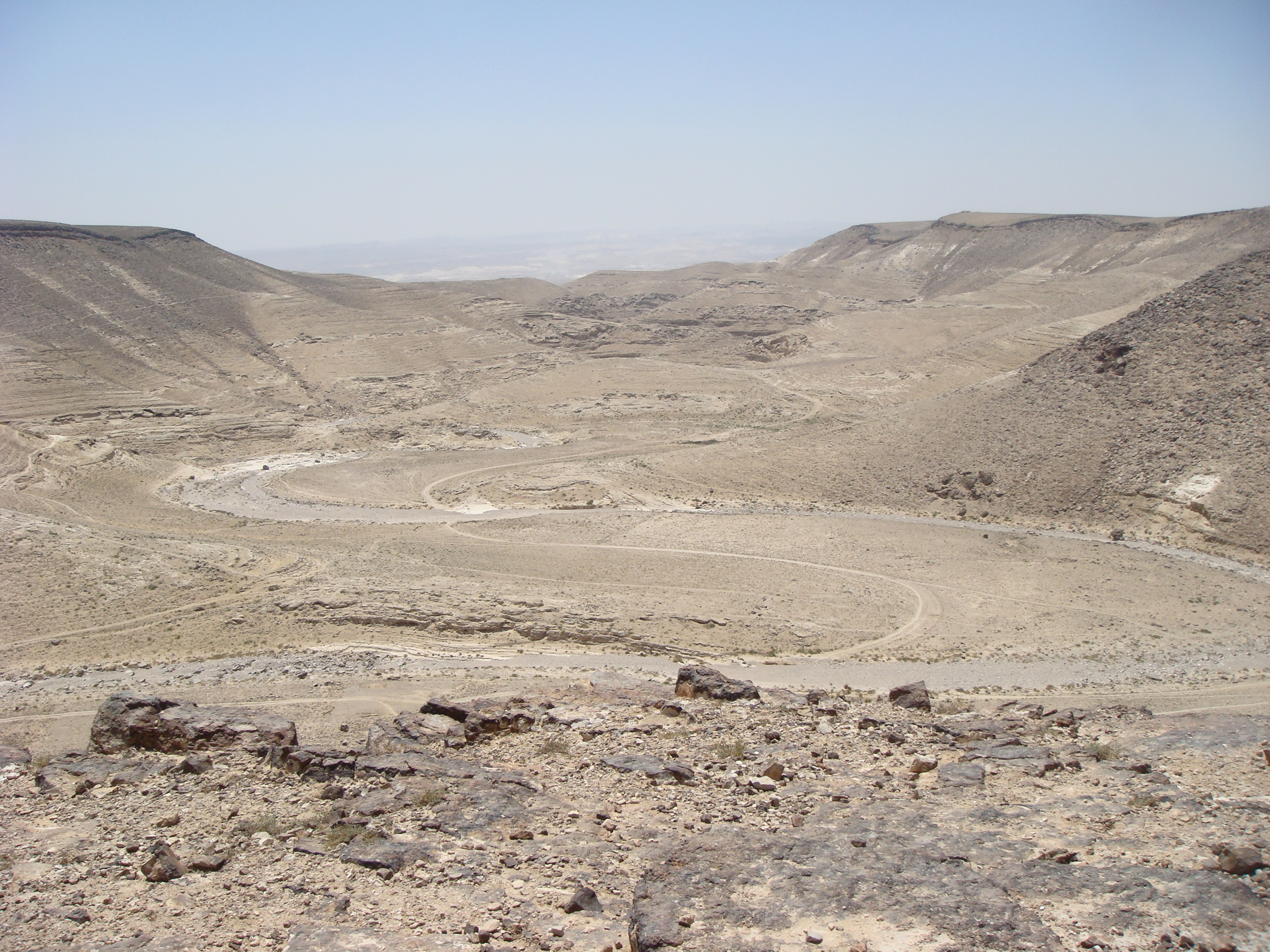 Kina river, Arad valley, Israel